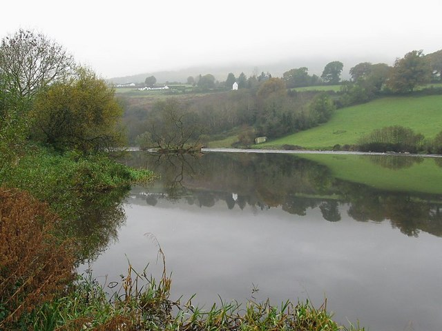 Misty River Barrow A misty day on the River Barrow 1.5 Km N of Saint Mullins.